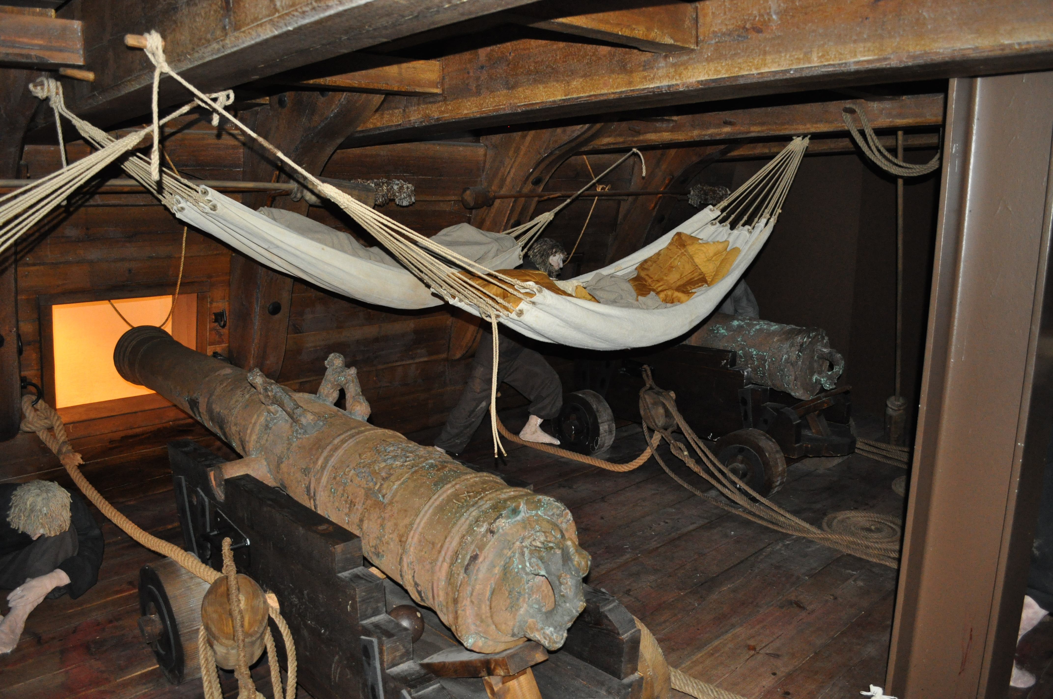 Ship deck of the Swedish ship of the line Kronan at Kalmar museum.